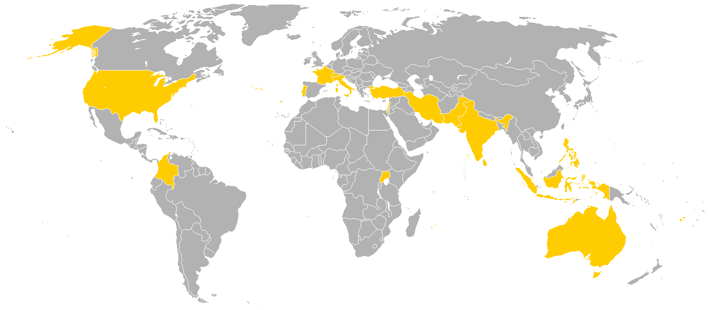 Foreign trips of Pope Paul VI